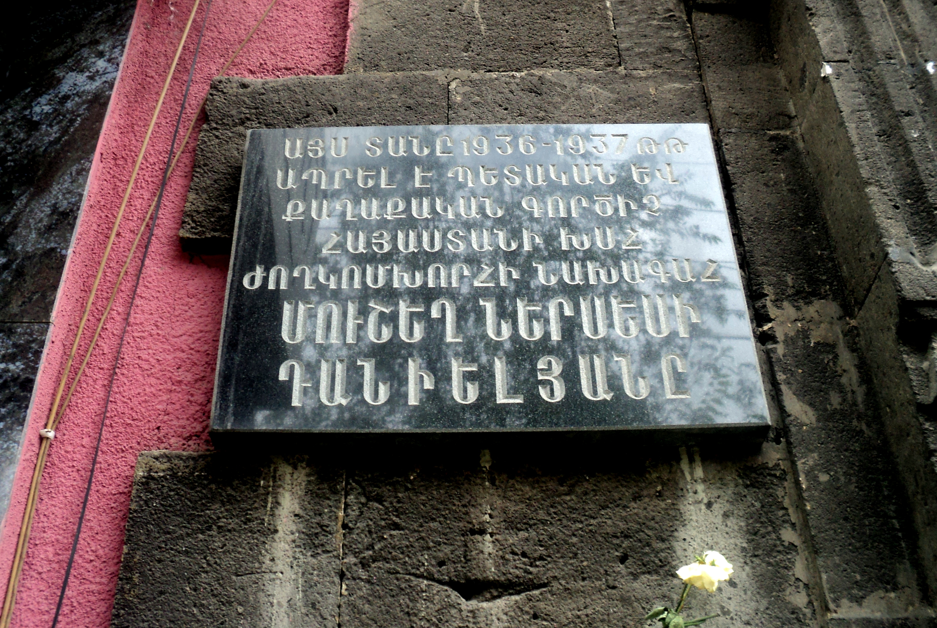 Mushegh Danielyan's Plaque